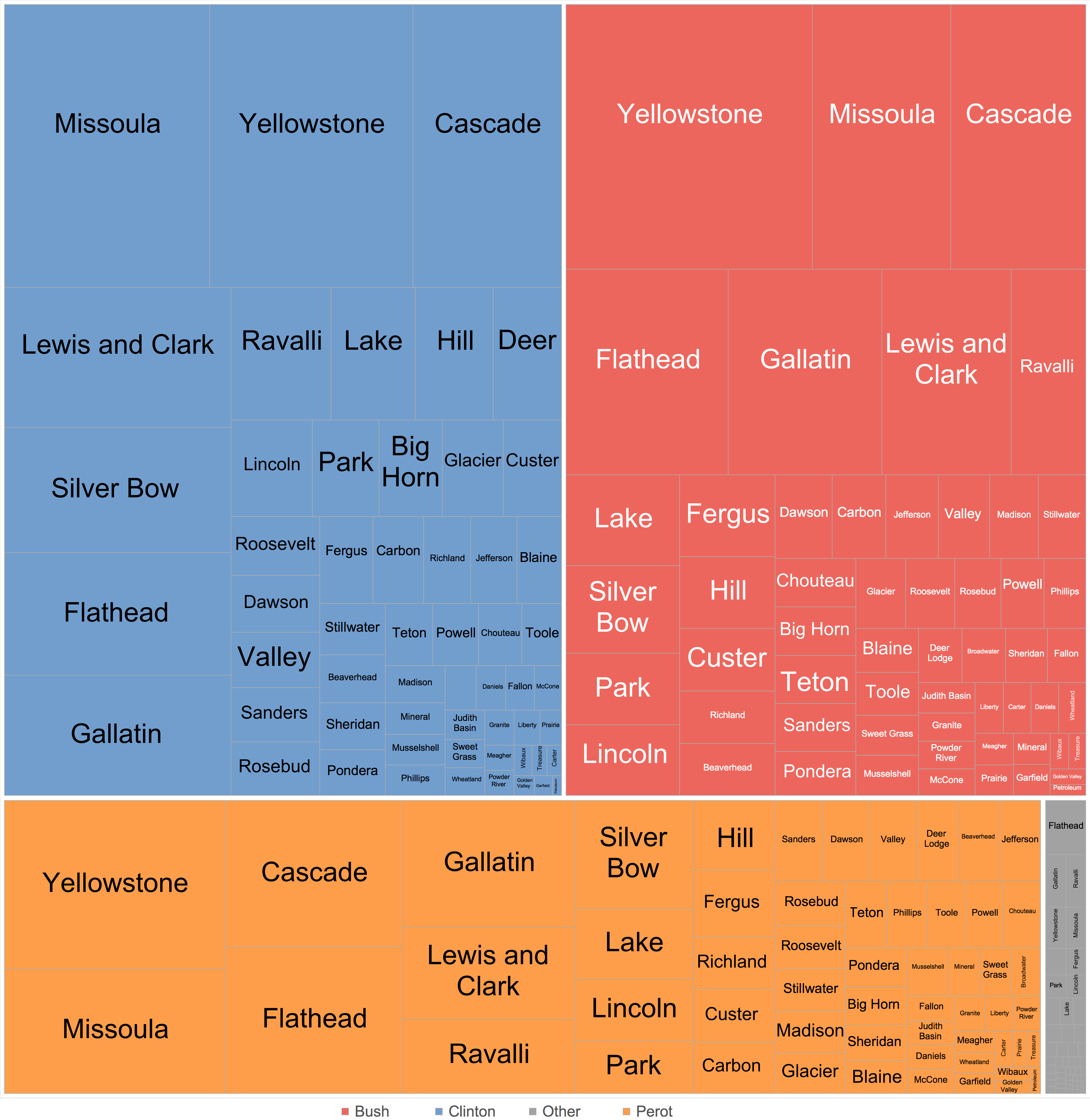 Treemap of the United States presidential election in Montana results by county. Color indicates candidate, Bill Clinton (blue), George H.W. Bush (red), Ross Perot (orange) and all others grouped (gray). Size shows number of votes. Source: Cooney, Mike (1992) Official 1992 General Election Canvass[1], Secretary of State of Montana, archived at Montana State Library